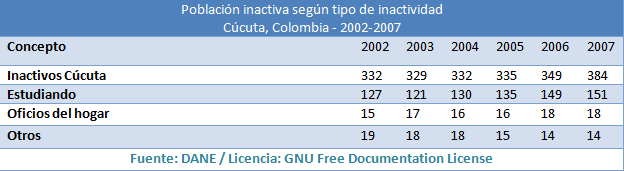 Inactive people in Cúcuta, Colombia [2002-2007]